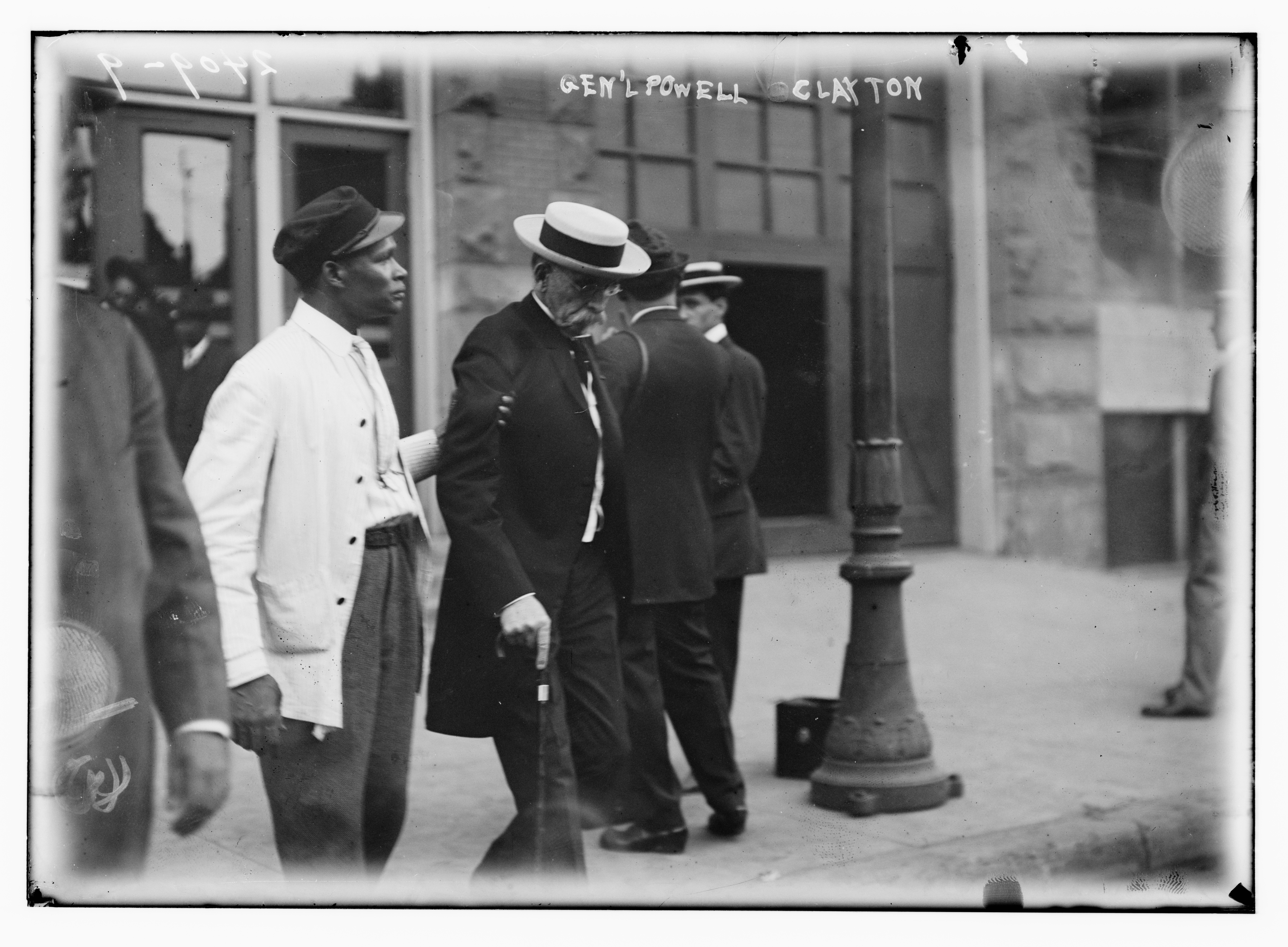 General Clayton Powell being assisted steping off curb, Chicago, 1912 Photo taken at the 1912 Republican National Convention held at the Chicago Coliseum, Chicago, Illinois, June 18-1912. (Source: Flickr Commons project, 2008) Forms part of: George Grantham Bain Collection (Library of Congress).